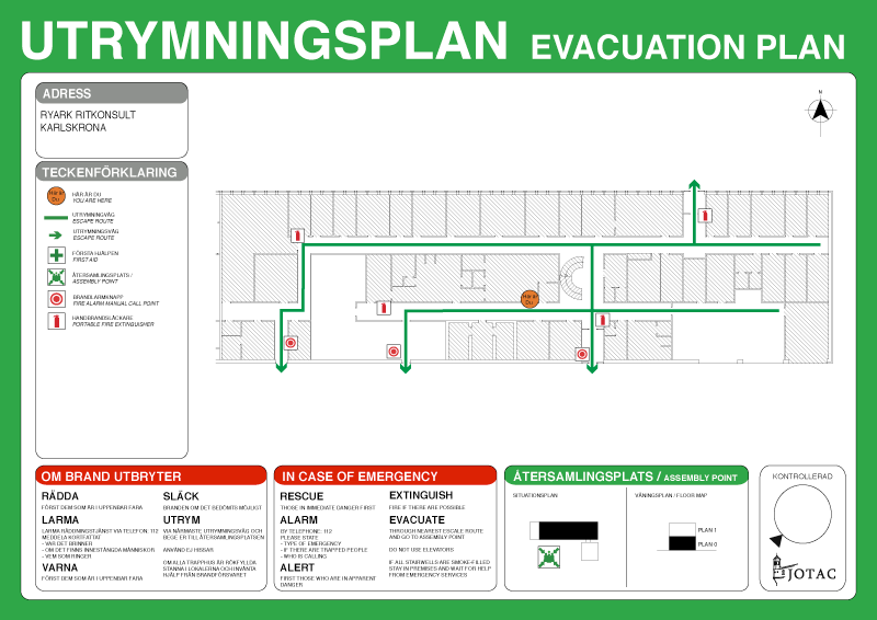 Swedish Evacuation Plan